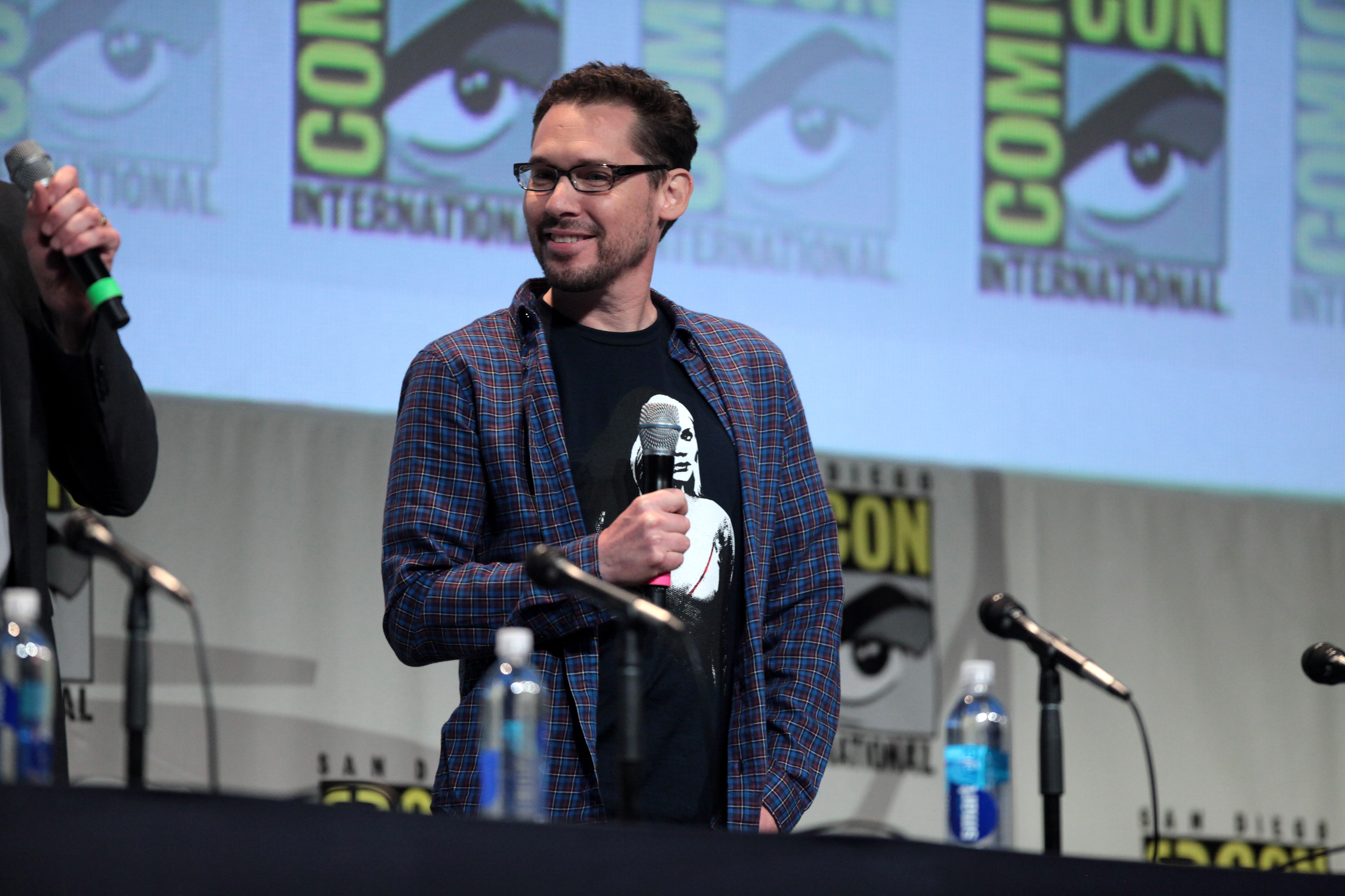 Bryan Singer speaking at the 2015 San Diego Comic Con International, for "X-Men: Apocalypse", at the San Diego Convention Center in San Diego, California.